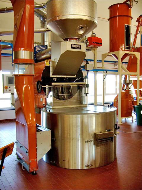 Coffee roasting machine